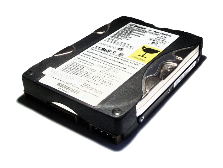 Seagate U6 3.5 inch 40 GB hard disk.